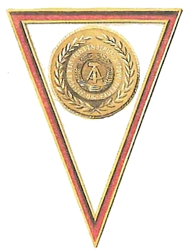 Graduates badge for individuals received professional officer´s education including high school diploma on a GDR National People´s Army Officers High School.